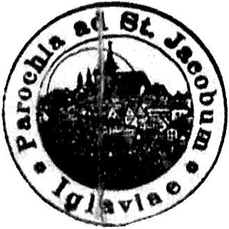 Stamp of a parish in Czech town Jihlava